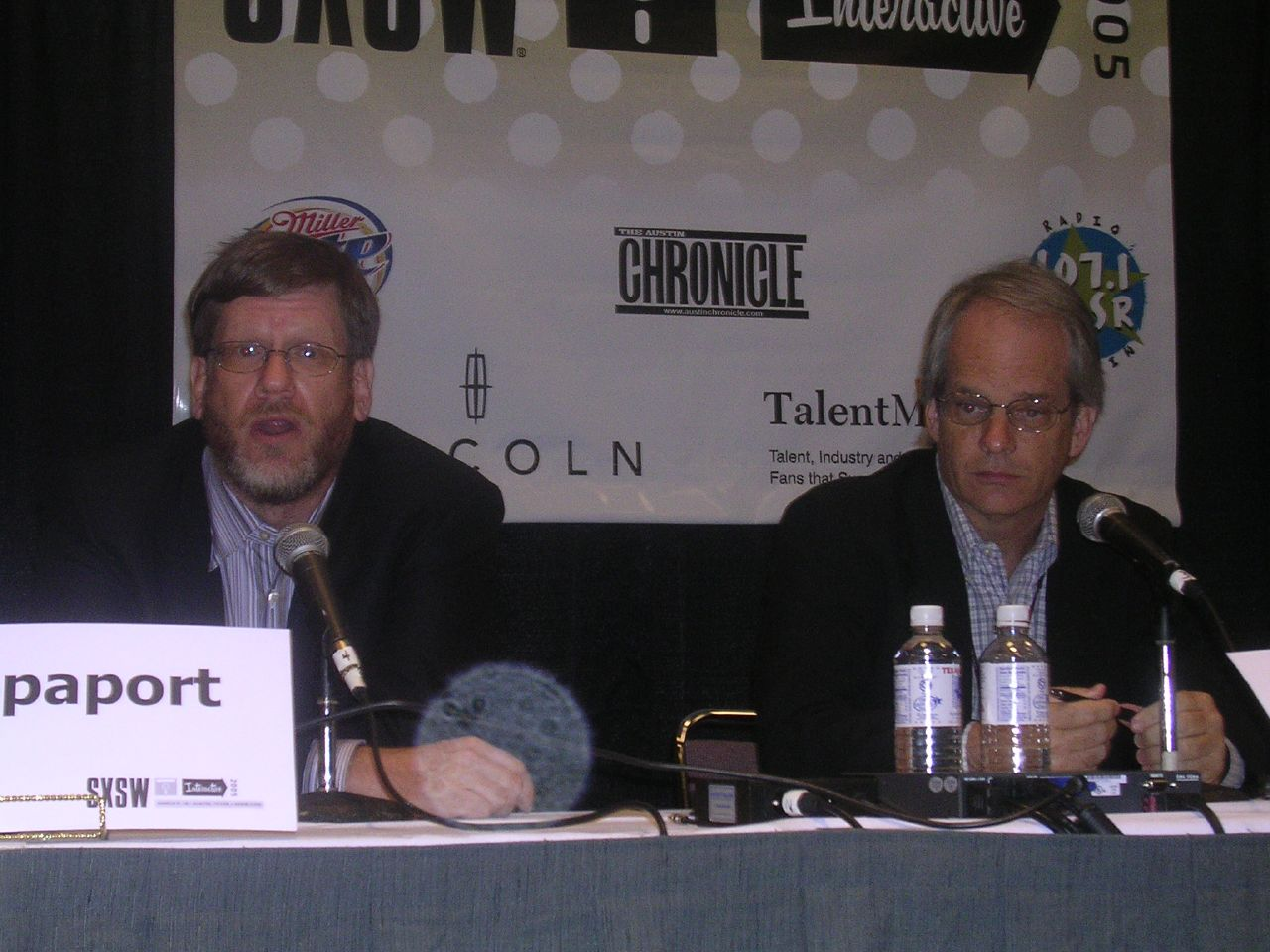 A picture of Andrew S. Rappaport and Glenn Smith at SXSW 2005